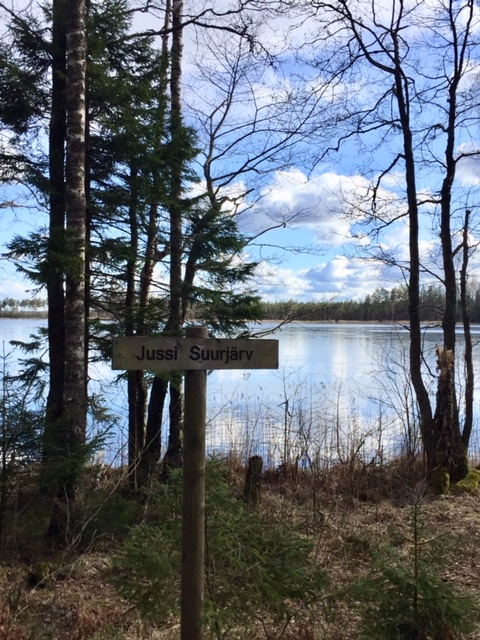 Picture of lake